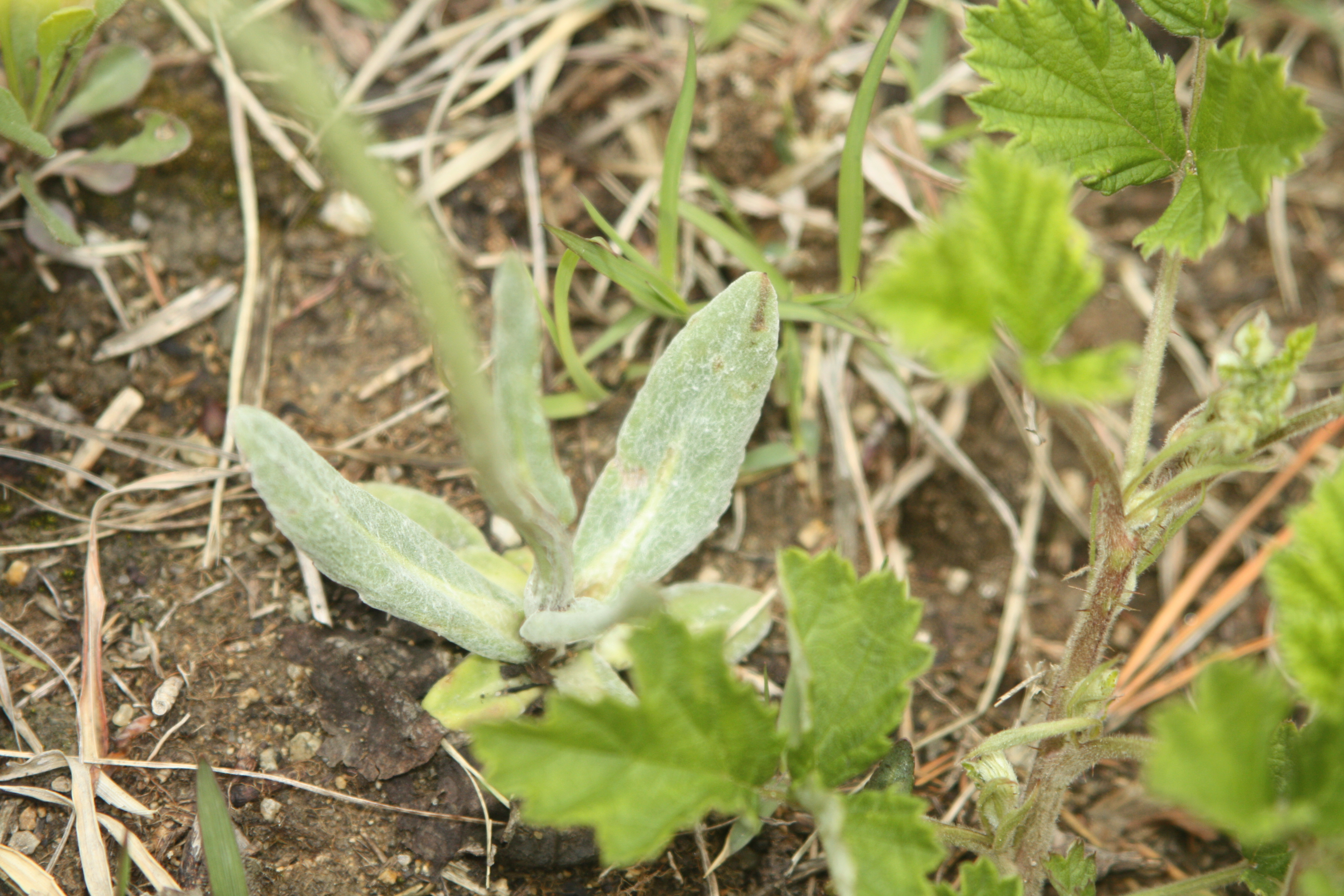 Tephroseris kirilowii